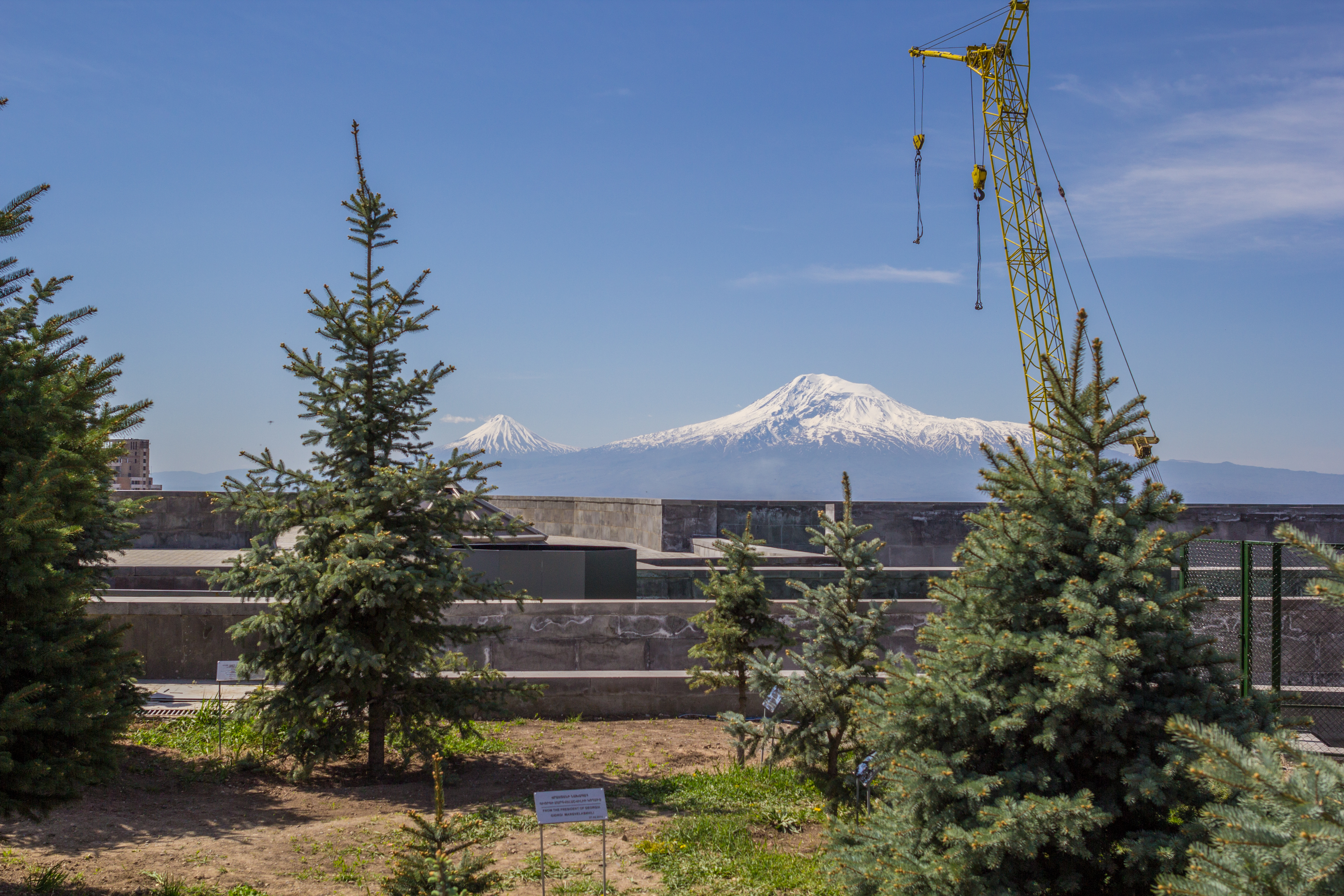 View of Mount Ararat from the Armenian Genocide Museum-Institute in Yerevan, Armenia, on Armenian Genocide Remembrance Day 2014. The memorial tree on the bottom has a plaque that reads, "From the President of Georgia. Giorgi Margvelashvili. 27 03 2014.